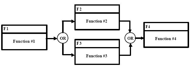 6 Exclusive OR Symbol